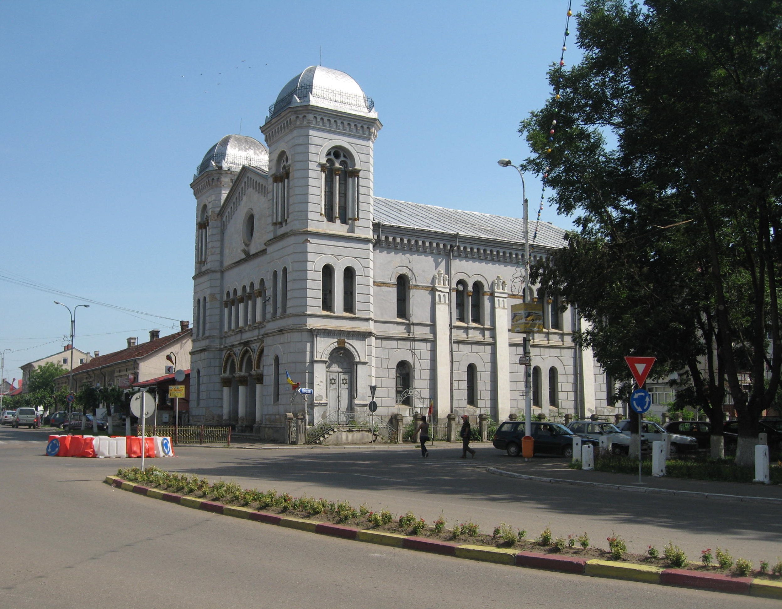 Templul Mare Evreiesc din Rădăuți